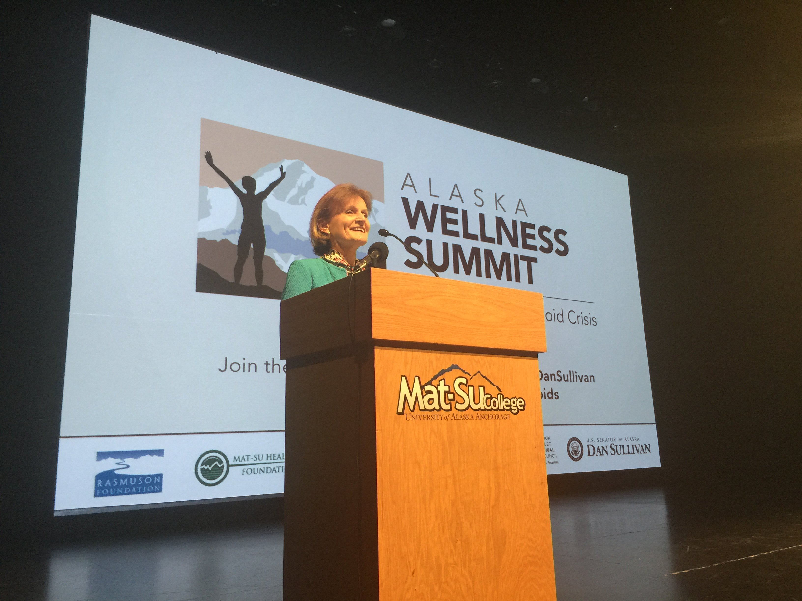 Traveled 1000s miles 2b here, but my journey nothing compared 2 journey many here have traveled-@HHSGov Dr Wakefield